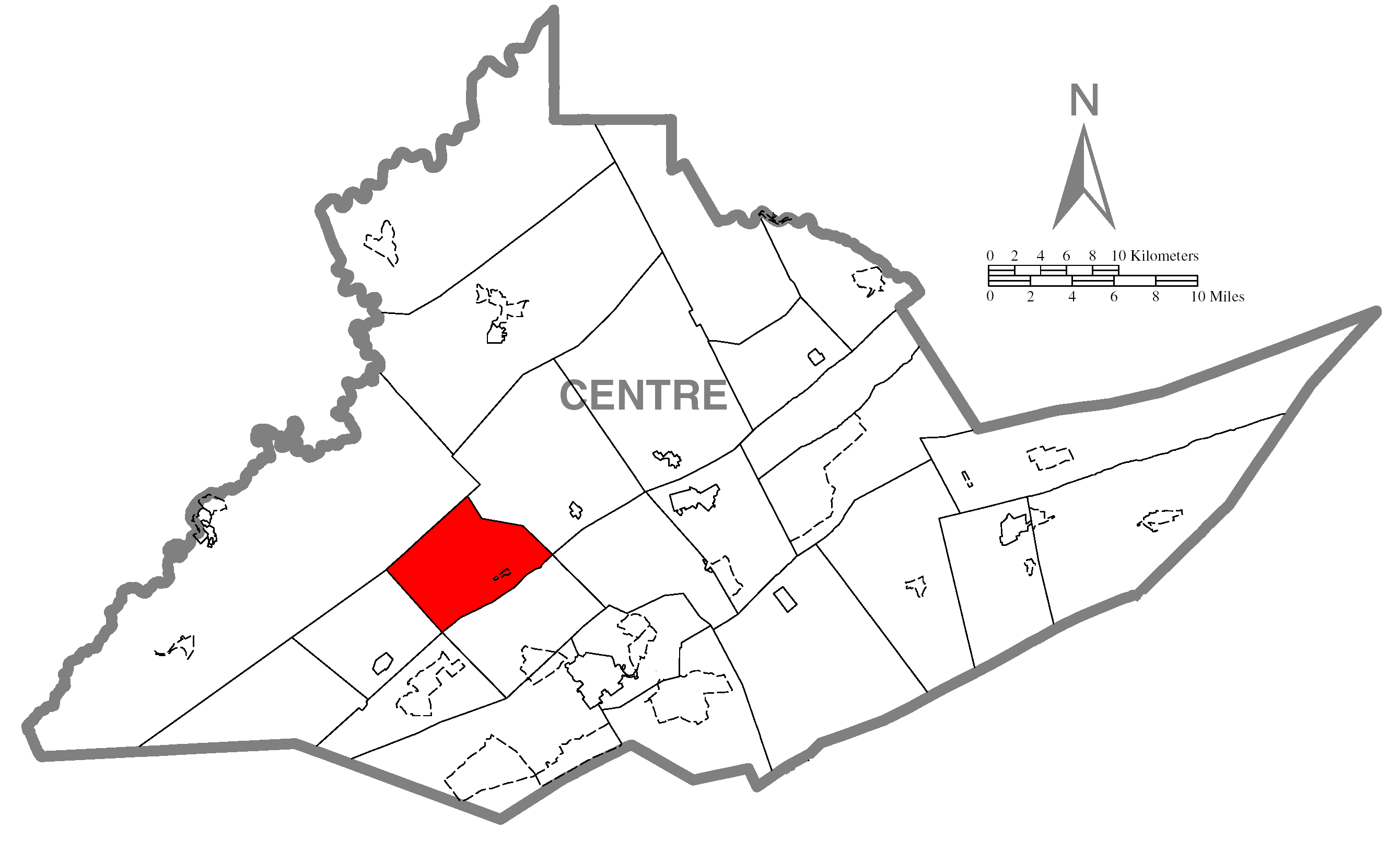 A map of Centre County showing Huston Township, Pennsylvania (alternate) highlighted on the map.